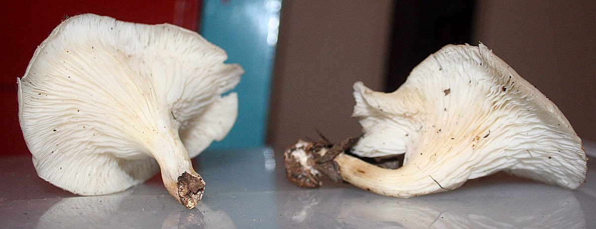 Omphalotus nidiformis south lawson with the lights on